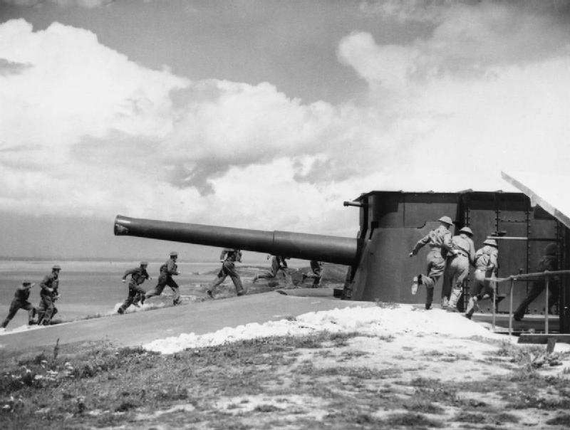 Gunners run to their posts at a 9.2-inch coastal defence gun at the Needles Battery on the Isle of Wight.